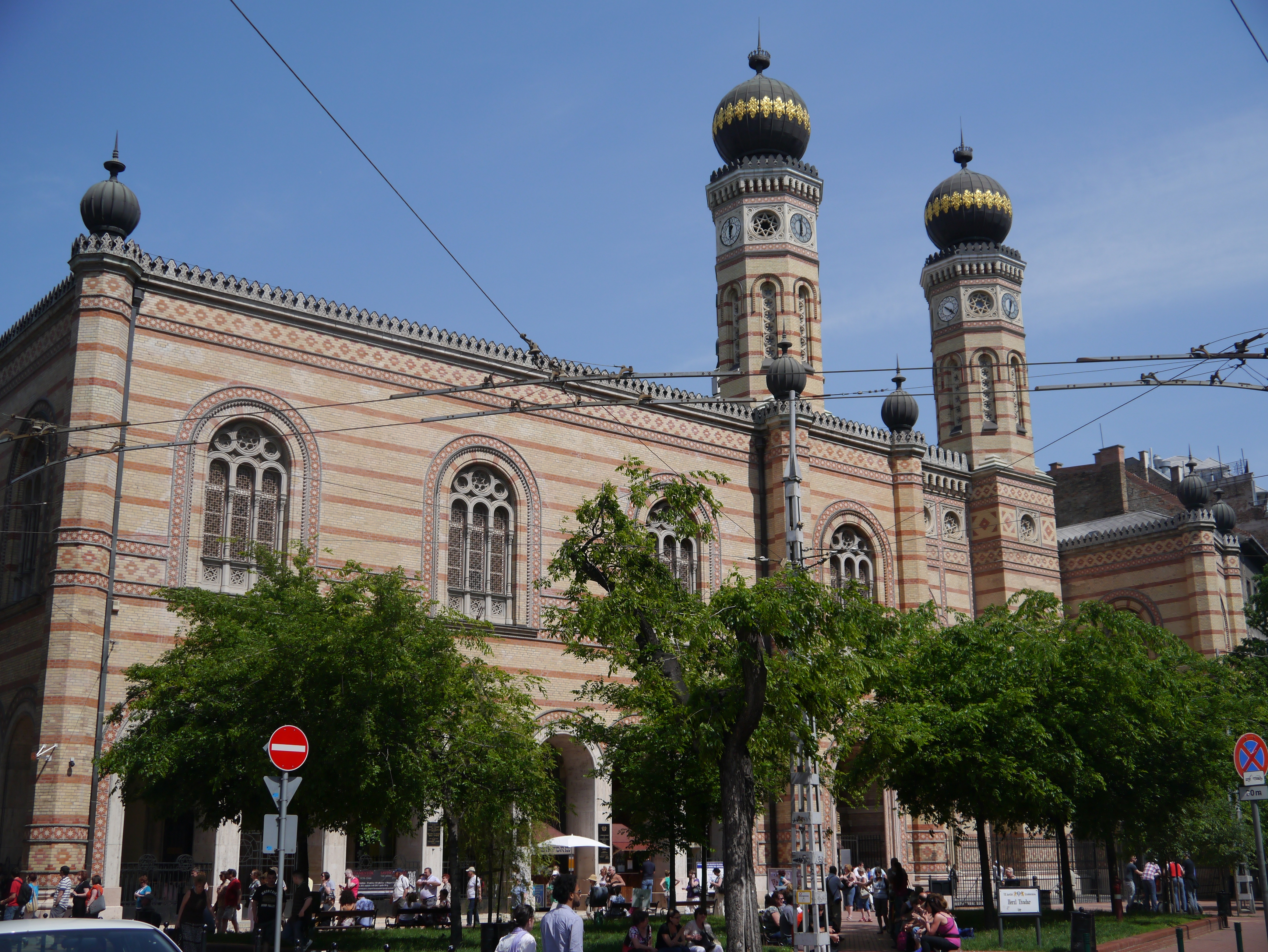 Facade of the Great Synagogue, Budapest, Northern Hungary